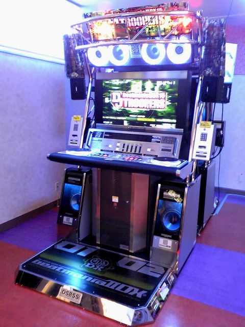 Cabinet of beatmania IIDX 15 DJ TROOPERS.